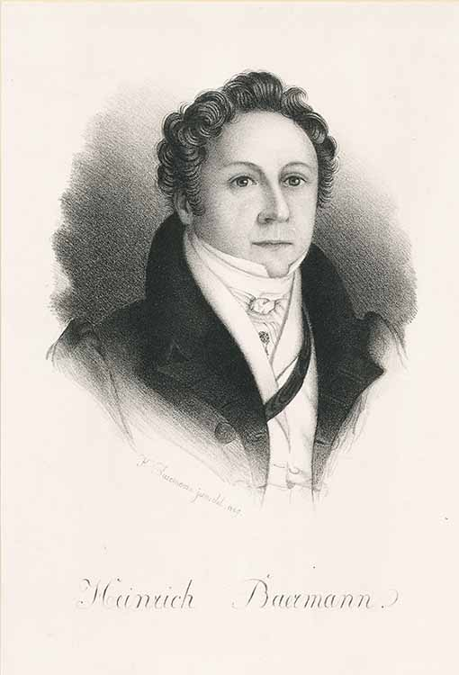 Portrait of Heinrich Joseph Baermann